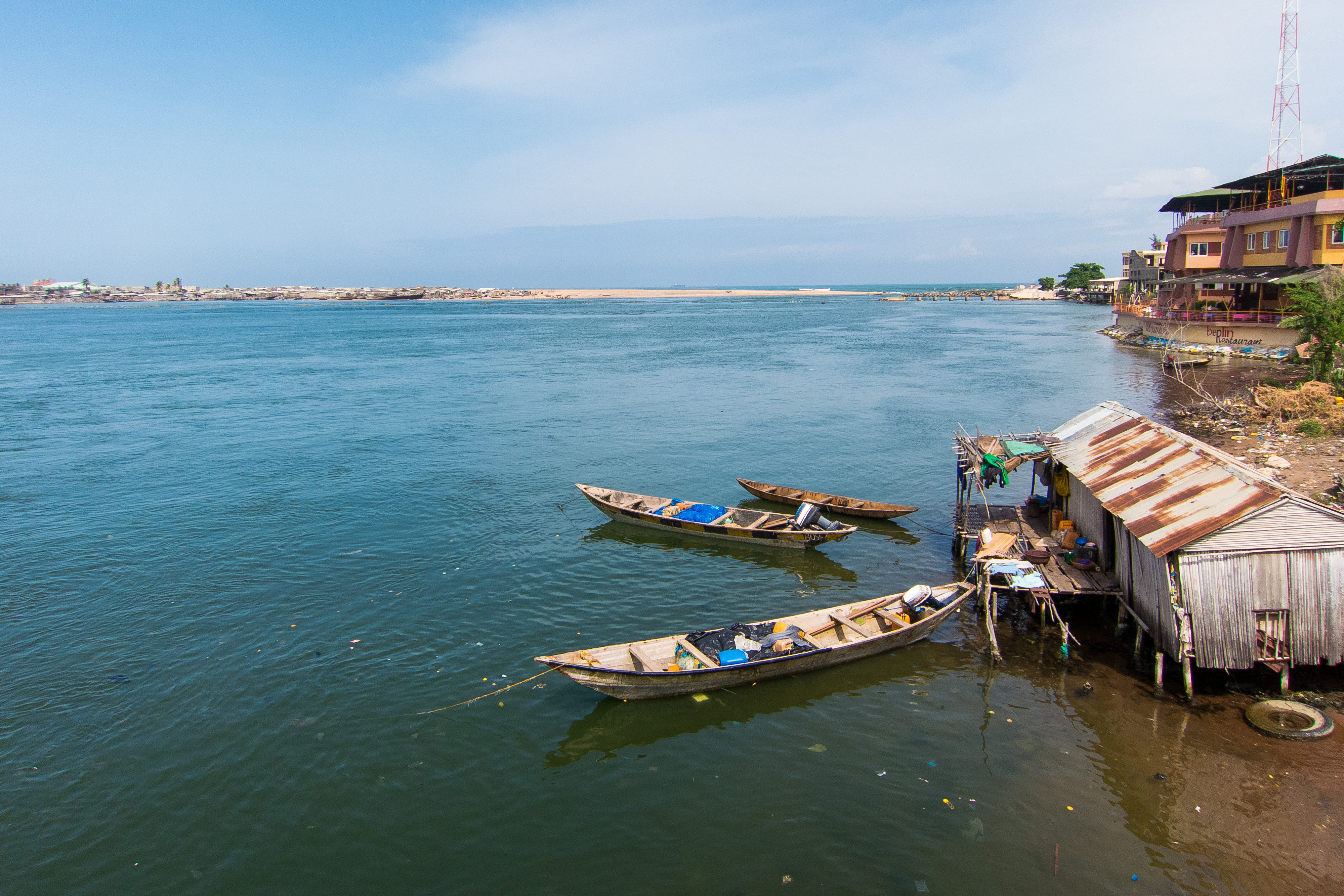 Boats at anchor in the lagoon in Cotonou, Benin. Cotonou is the economic capital of the West African country of Benin and is located on the coastal strip between Lake Nokoué and the Atlantic Ocean. The city is cut in two by a canal, the lagoon of Cotonou, which connects the Lake to the Atlantic.